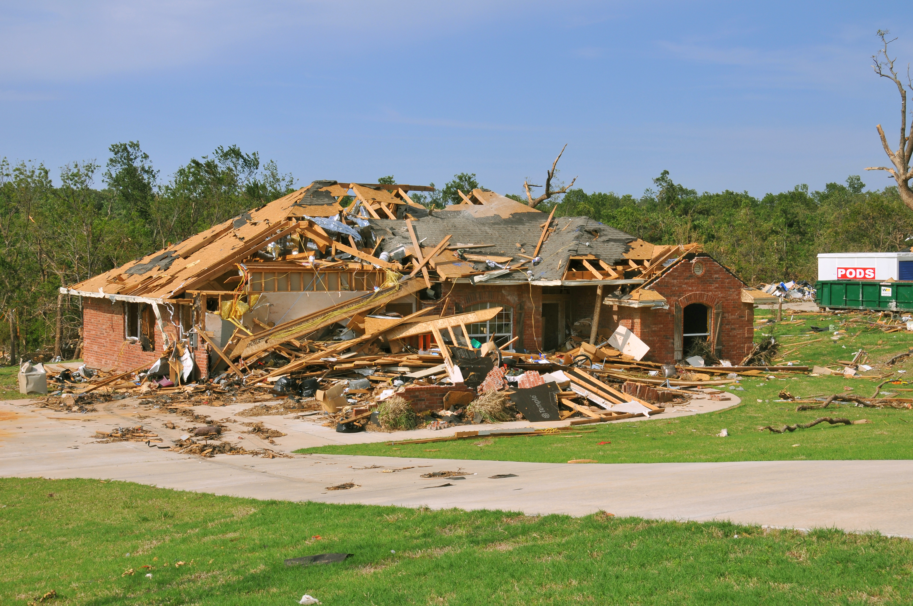 Oklahoma County, OK, May 24, 2010 -- Little remains of a home destroyed by one of the 22 confirmed tornadoes that swept across eastern Oklahoma on May 10. The powerful storms produced the fourth largest single-day outbreak in the state's history. FEMA Photo by Win Henderson